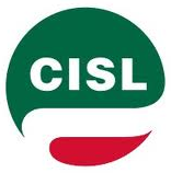 CISL logo